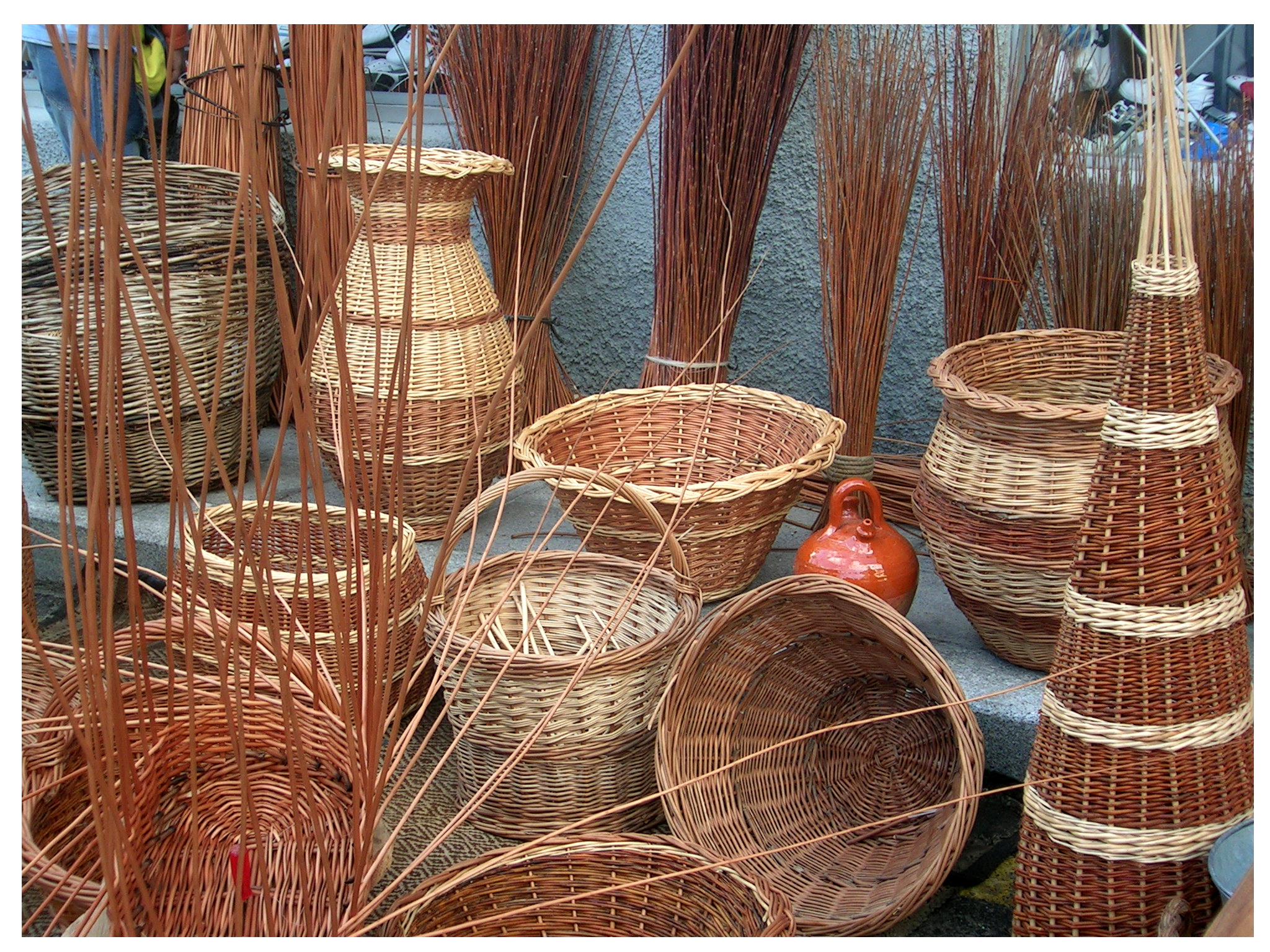 Some wicker baskets in Valdemoro (Community of Madrid, Spain).